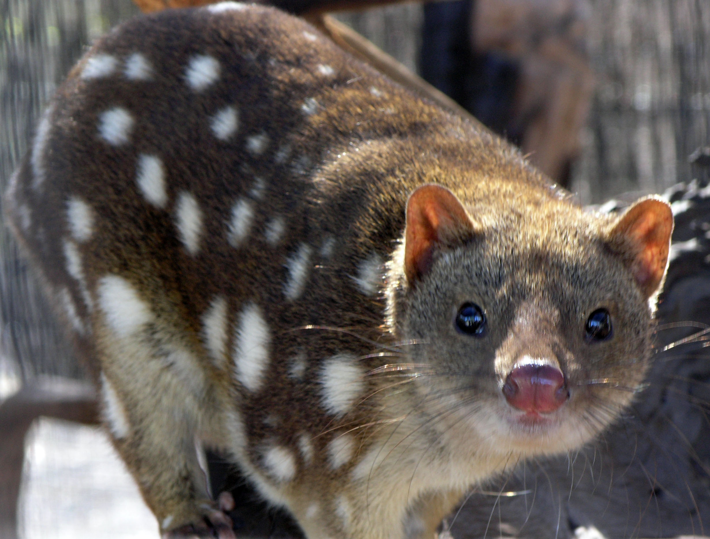 This is a picture that I took myself using an Olympus C8080W digial camera. It is a spotted quoll taken in Caversham wildlife park north of Perth, WA.